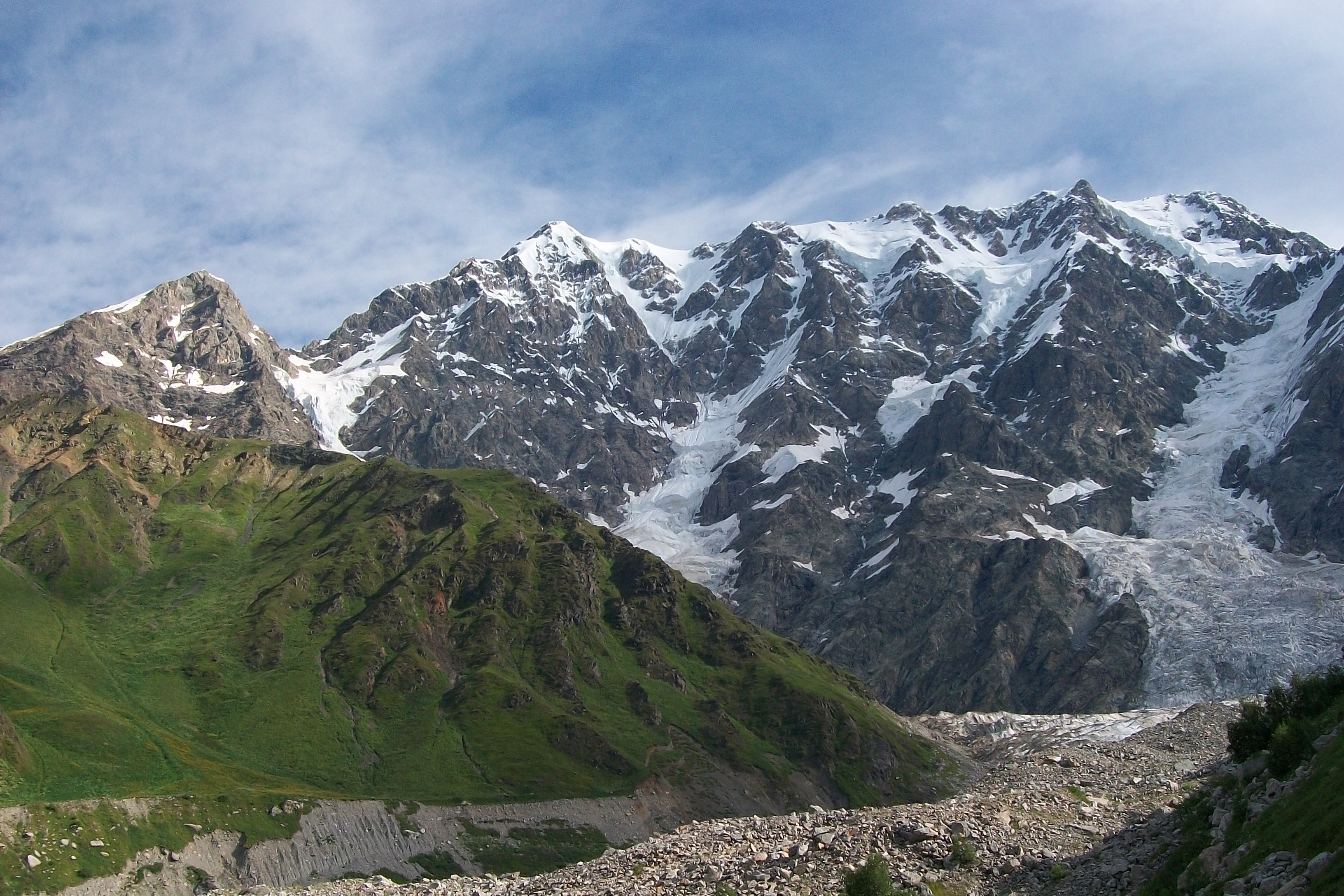 View of Shkhara Mountain (5193m) from Georgian side. South Face.